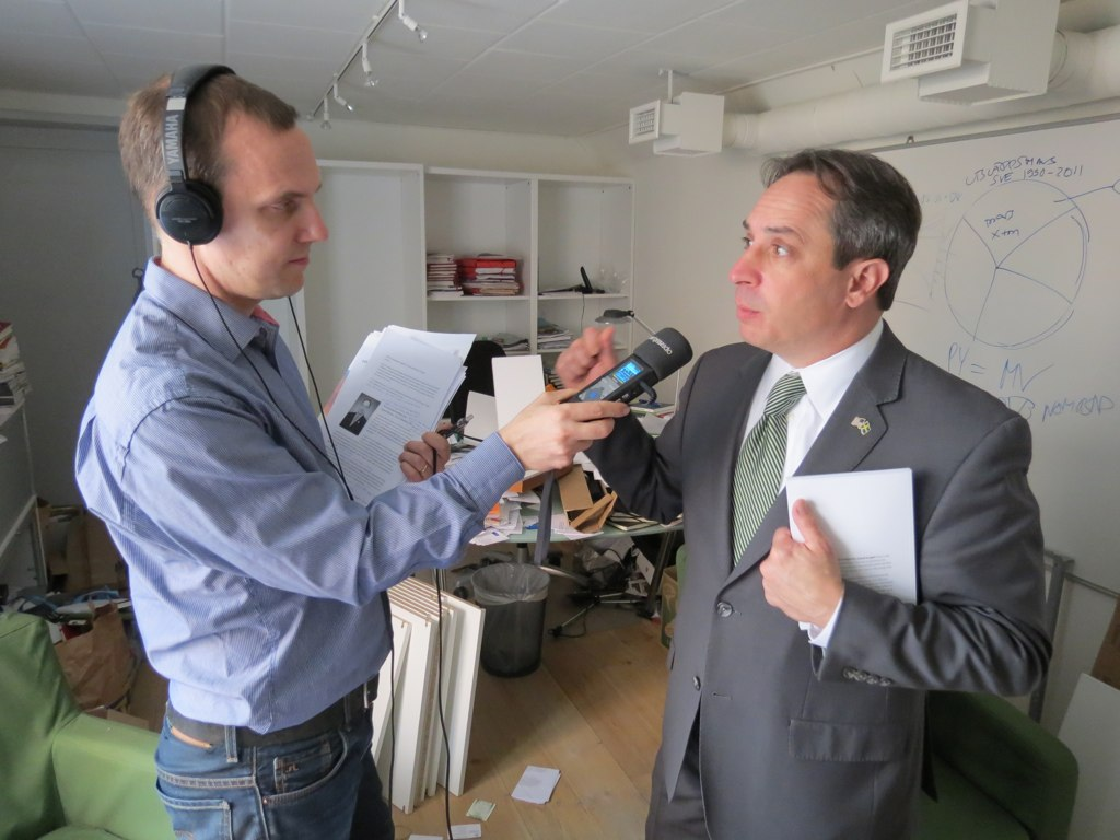 City Council Member Matthew Zone speaks to Swedish Radio about urban sustainability initiatives in Cleveland, Ohio.